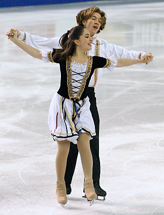 Loren Galler-Rabinowitz and David Mitchell compete in the compulsory dance, Yankee Polka, at the 2004 Four Continents Championships in Hamilton, Ontario. Photo taken by me, Vesperholly 07:45, 17 July 2006 (UTC)